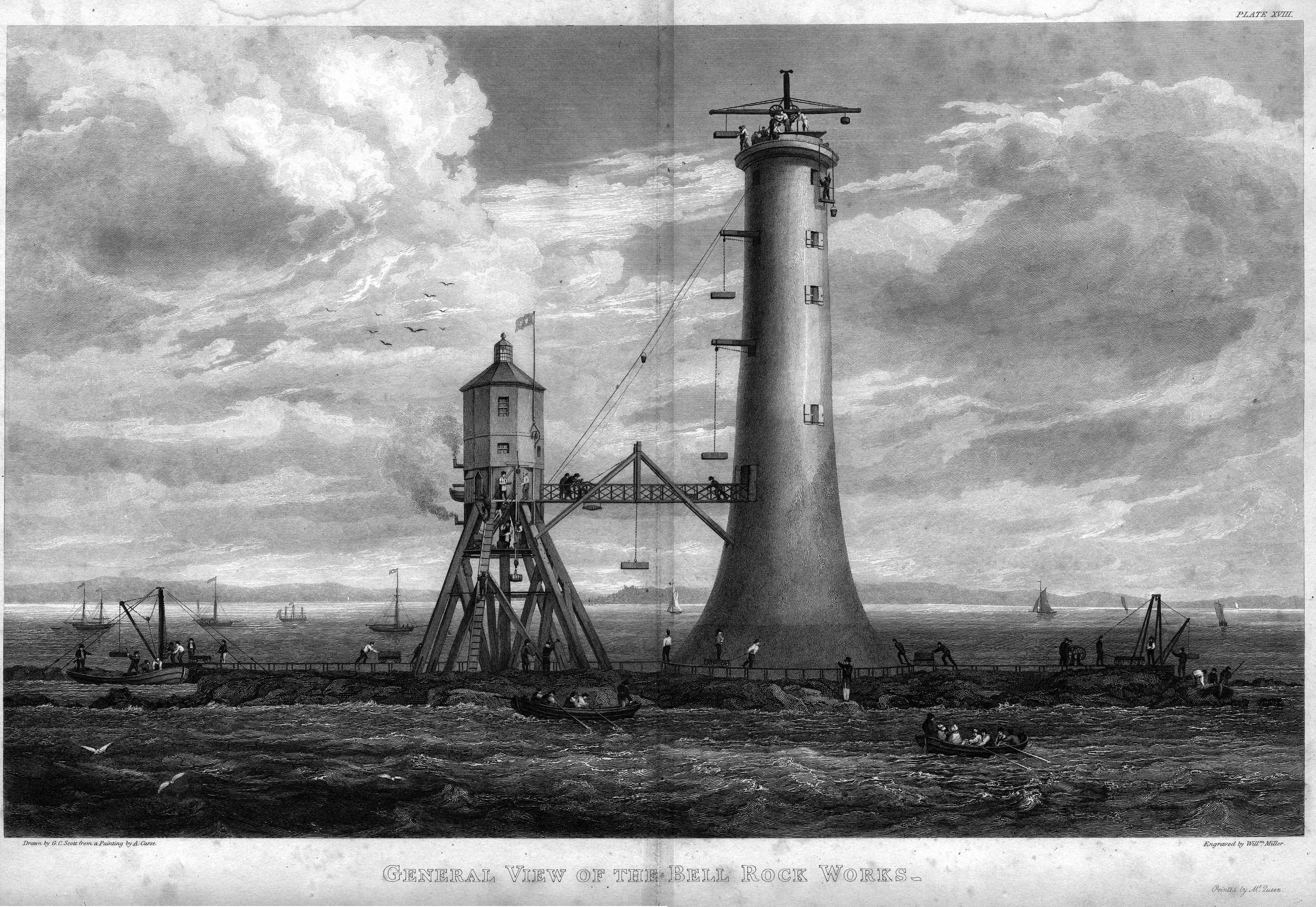 General View of the Bell Rock Works, engraving by William Miller after Alexander Carse (paid £35-0-0 in viii 1823), published as Figure xviii in An Account of the Bell Rock Lighthouse by Robert Stevenson, Edinburgh Printed for Archibald Constable and Co, Edinburgh; Hurst, Robinson and Co and Josiah Taylor, London, 1824